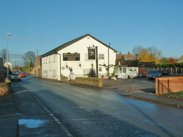 Hook Near Goole, Blacksmiths Arms, Hook, East Riding of Yorkshire, England